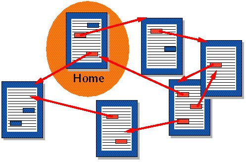 Several documents being connected by hyperlinks.